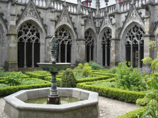 Cloister Utrecht Cathedral